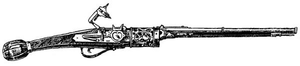 6-chabmered wheel-lock revolver (Germany 1590)